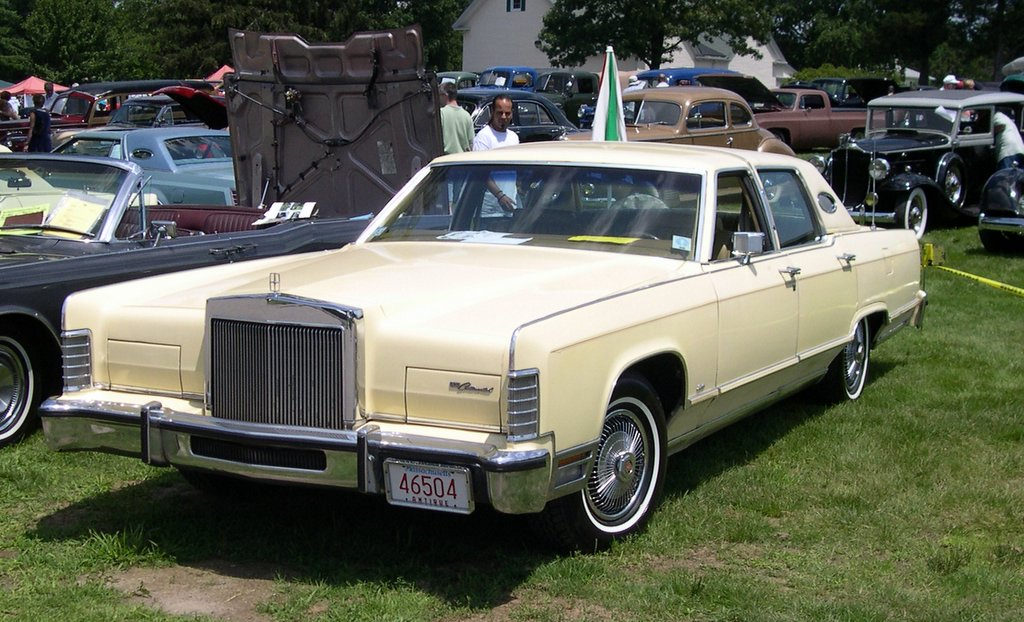 1978 Lincoln Town Car